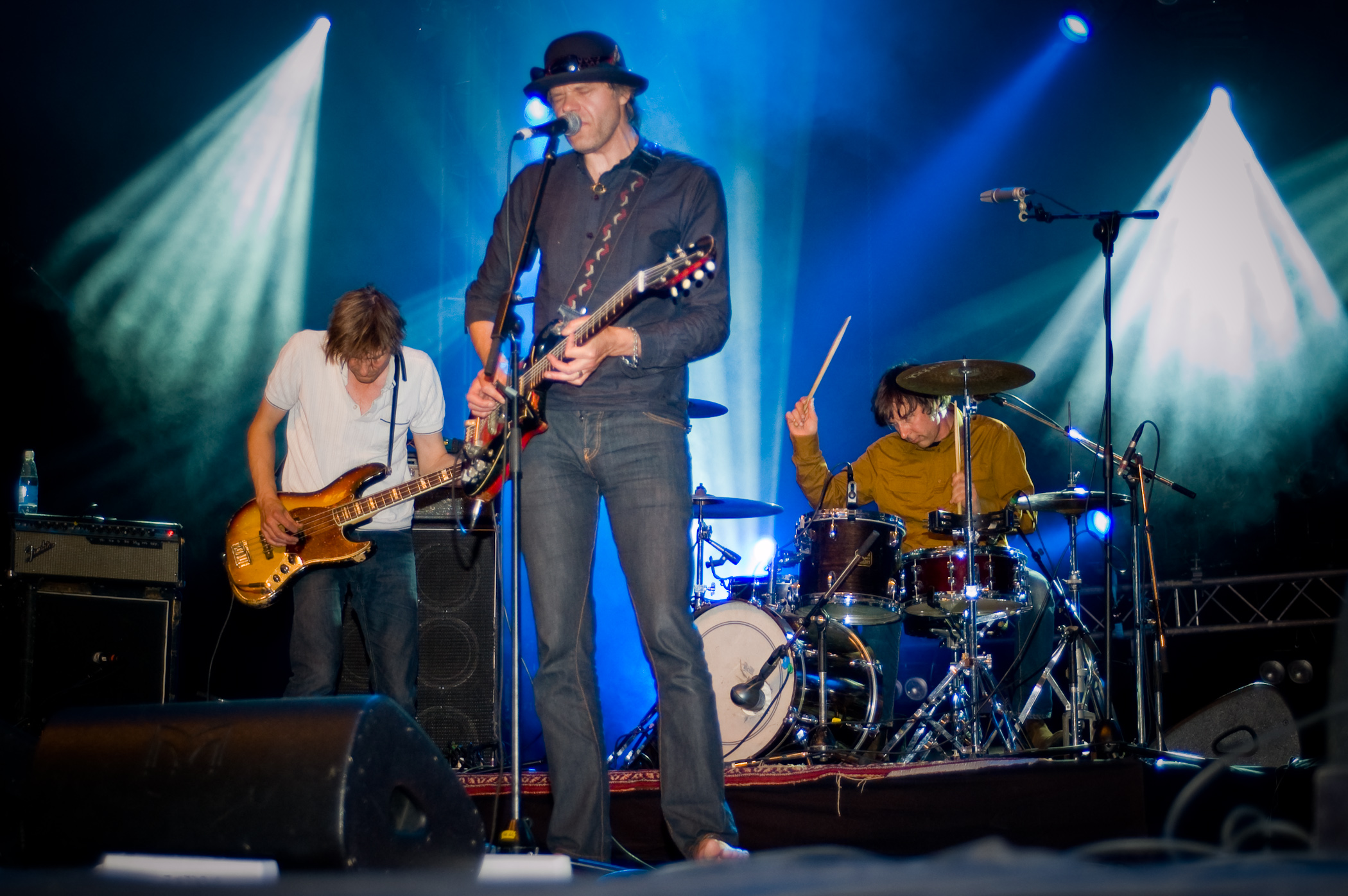 The Finnish band 22-Pistepirkko performing at the Ilosaarirock festival on the 11th of July 2008 in Joensuu, Finland.